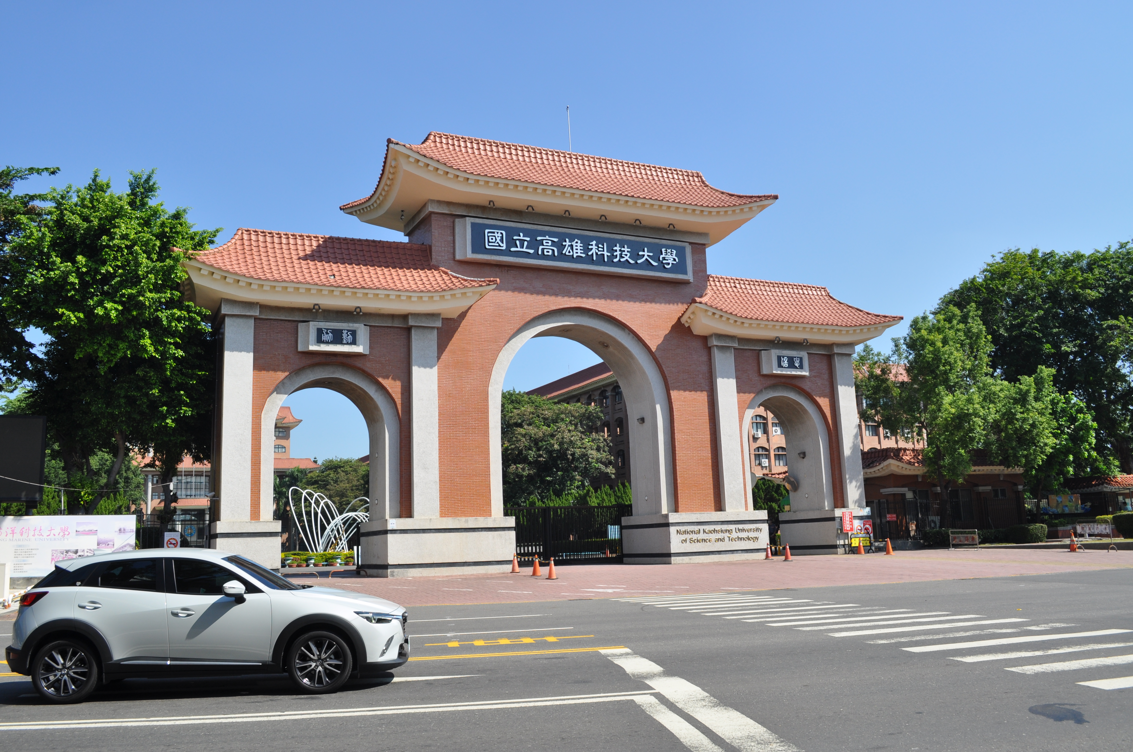 Nanzih Campus, NKUST